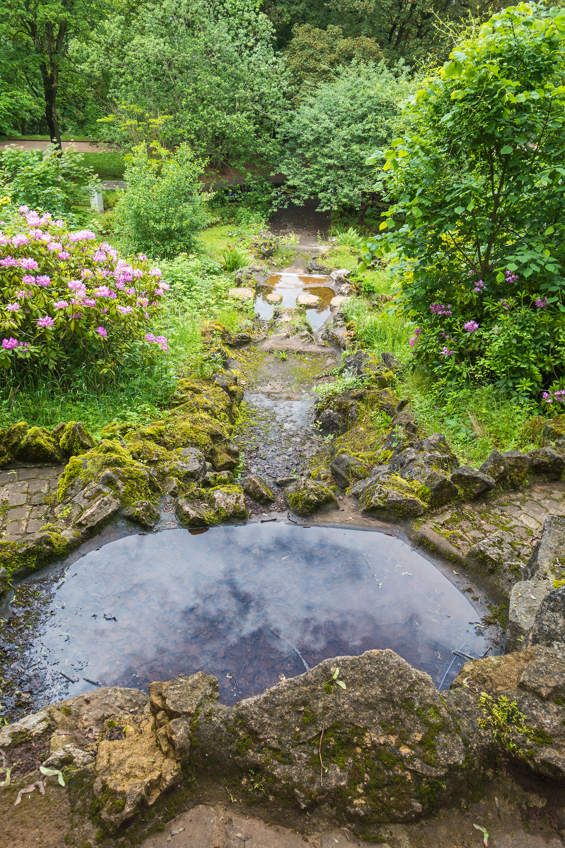 Cascade in the city park of Esch-Alzette on the Gaalgebierg (out of order)